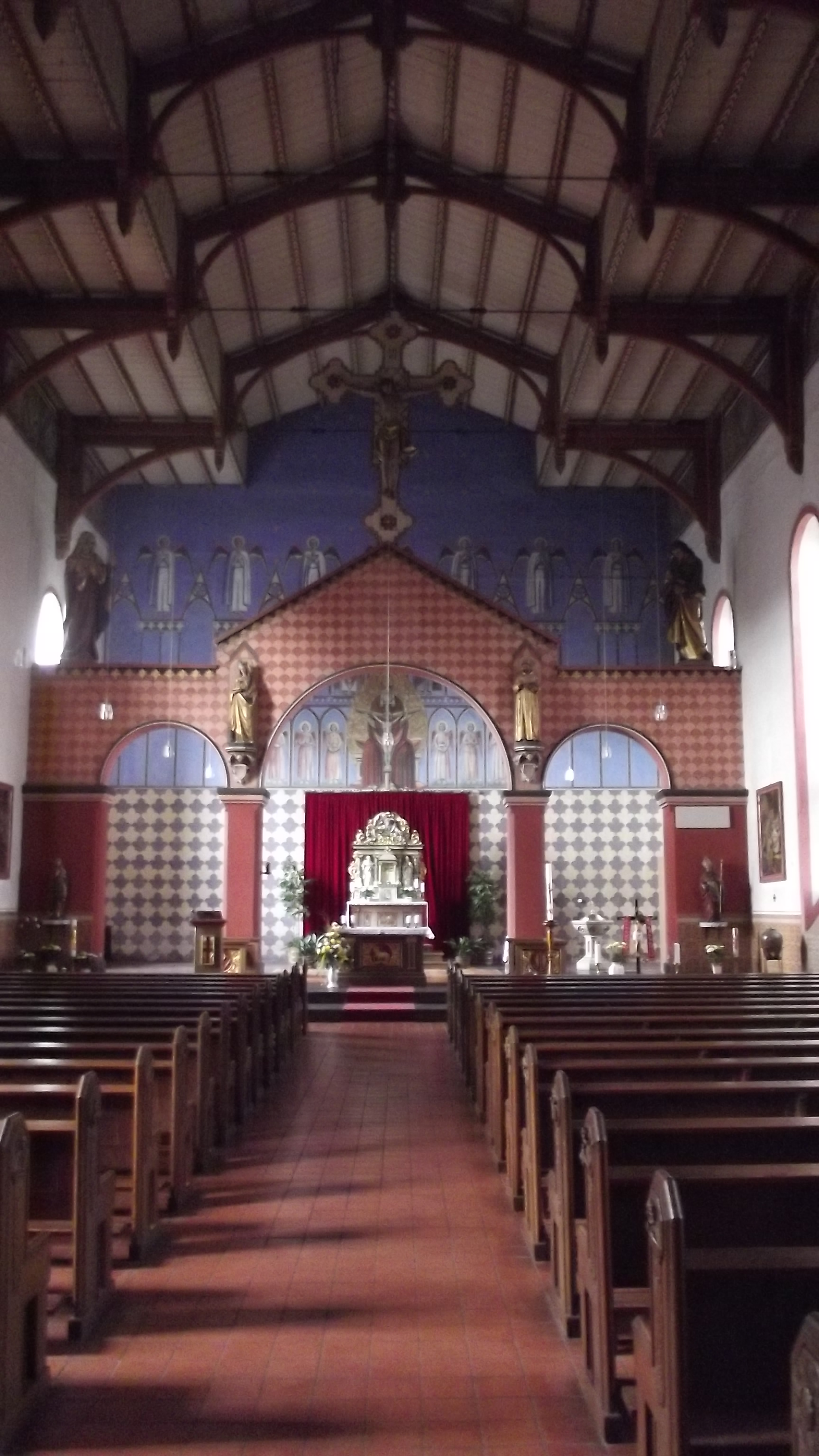 Interior of the roman catholic church in Neunkirchen (Nahe), Saarland